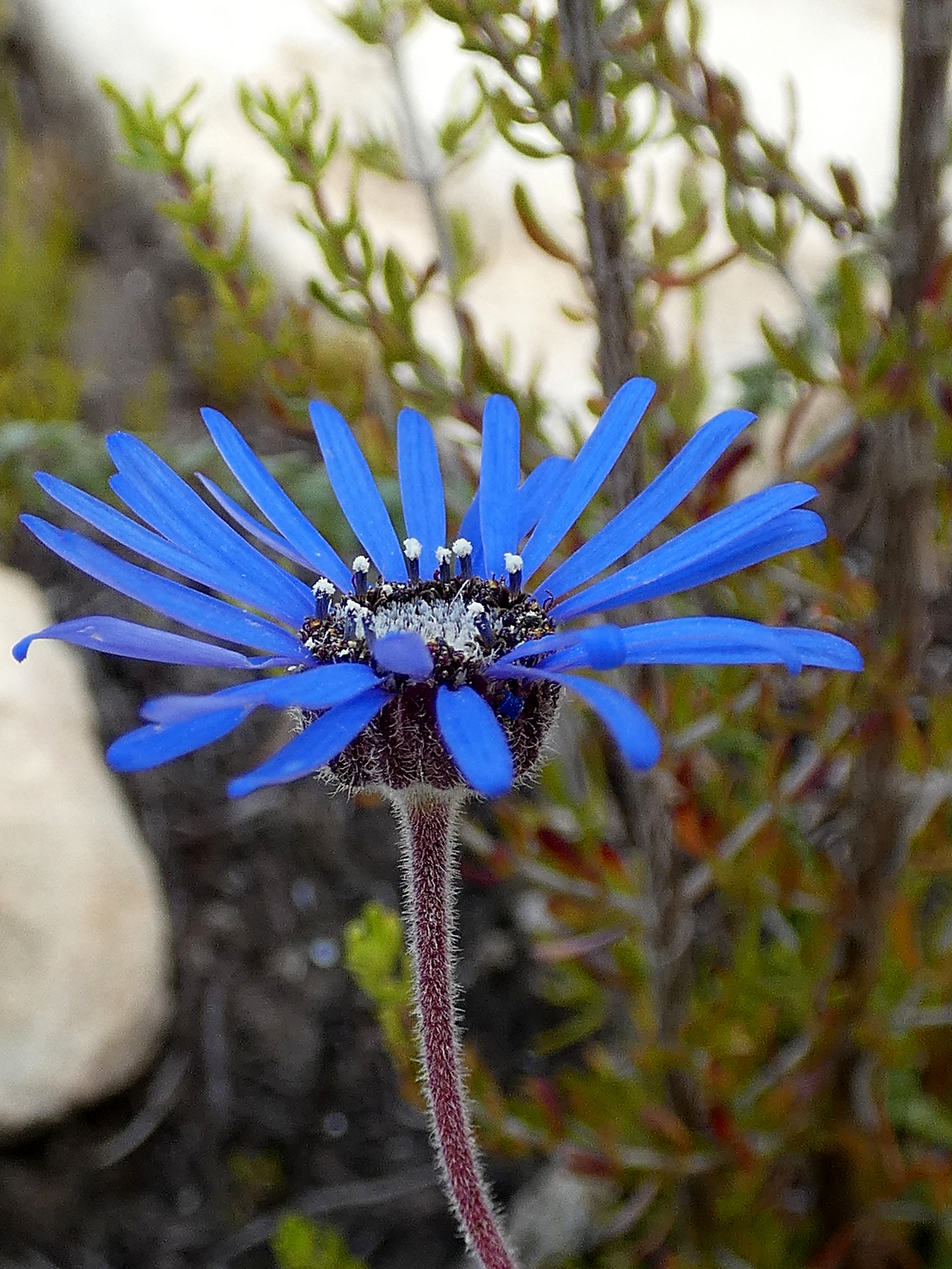 Felicia amoena subsp. latifolia dark disc form, photographed near De Hoop NP, SA